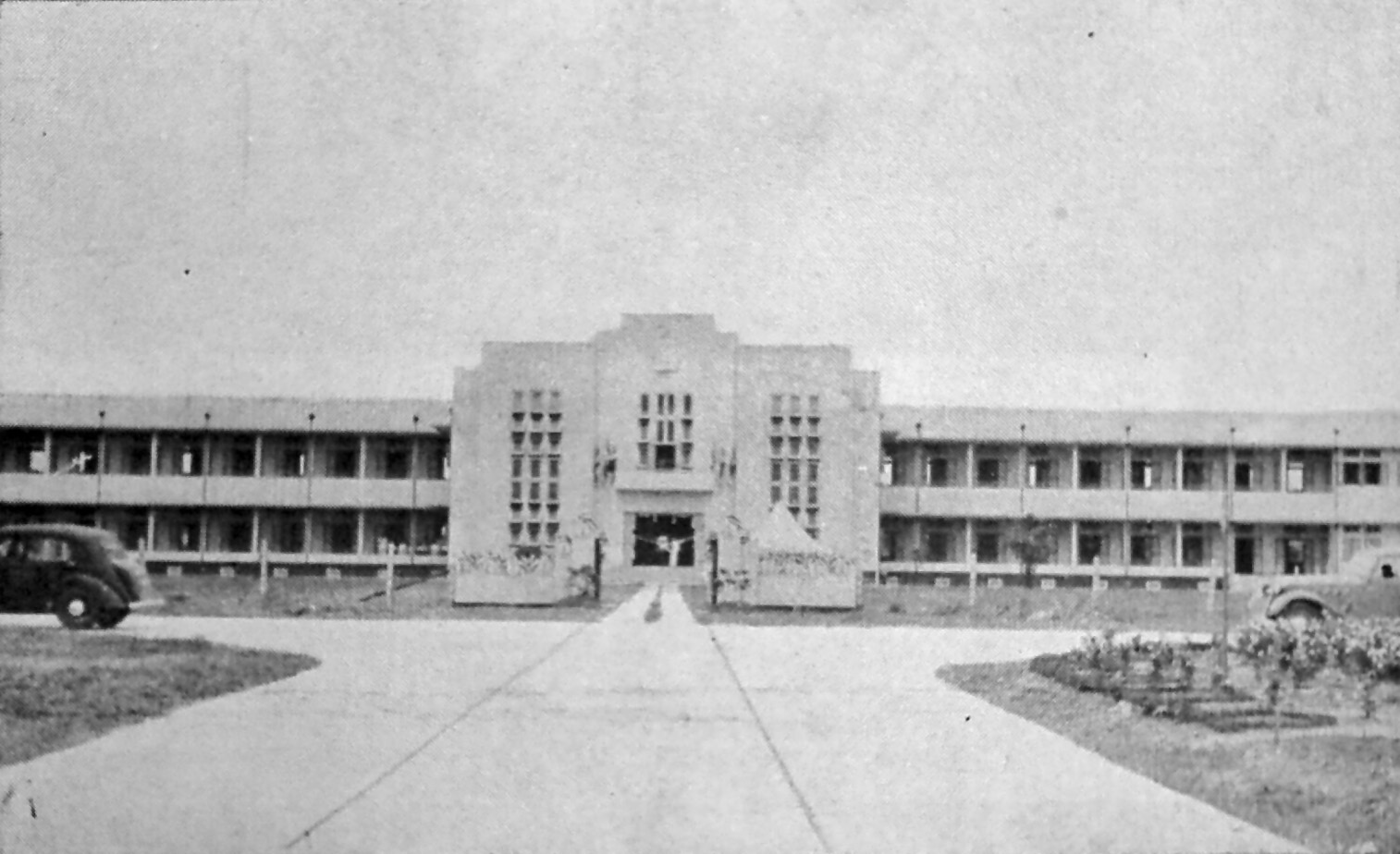 Building 2 of Triam Udom Suksa School, then known as Triam Udom Suksa Building, on the day of its opening ceremony Original caption: “ตึกเตรียมอุดมศึกษา สร้างเสร็จ พ.ศ. ๒๔๘๒ ทำพิธีเปิดเมื่อวันที่ ๒๔ มิถุนายน ๒๔๘๓”